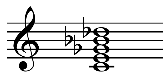 Altered chord on C. Created by Hyacinth (talk) 19:22, 23 November 2010 using Sibelius 5. See also: File:Altered_chord on C.mid